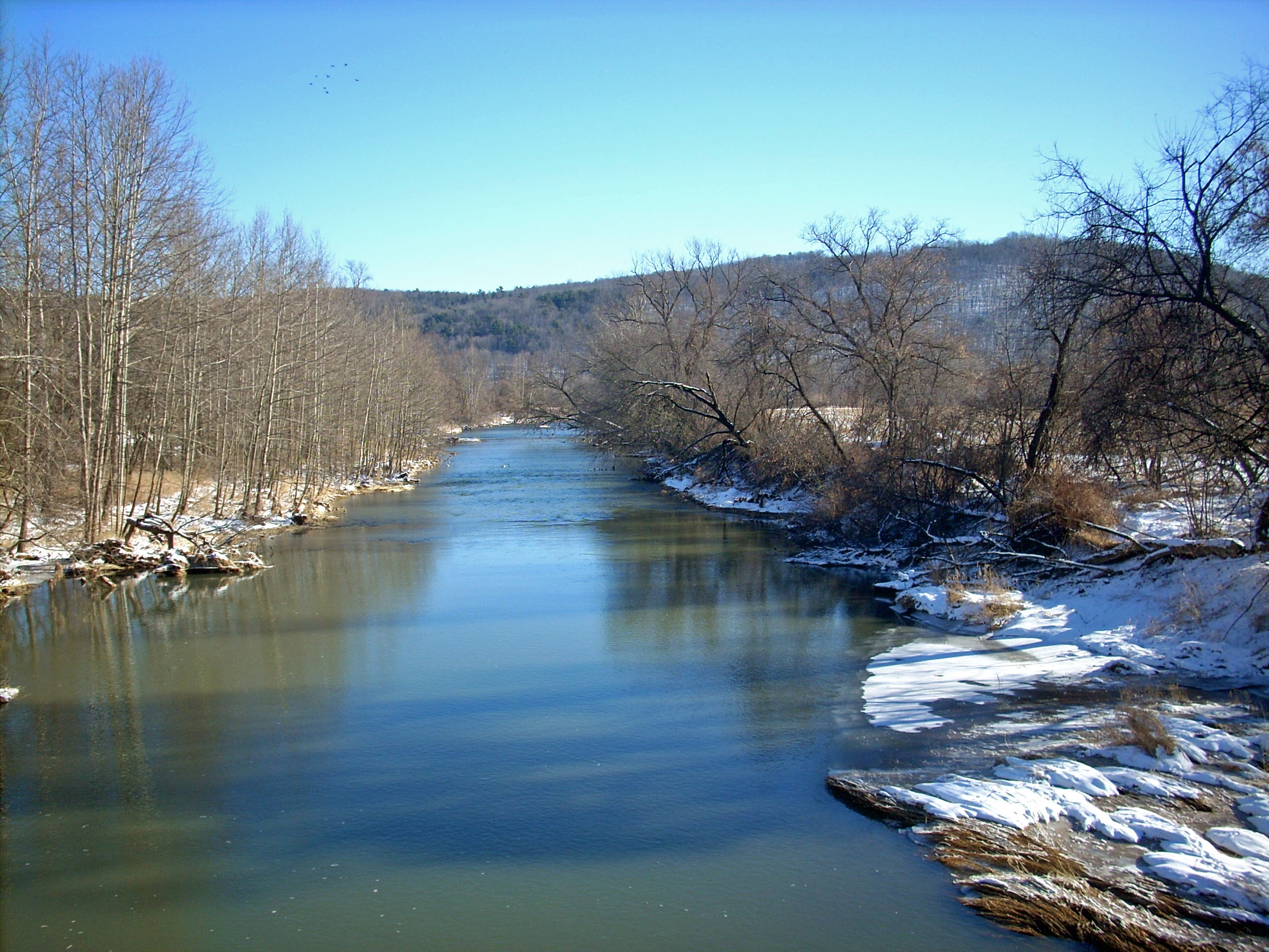 Cowanesque River, Stueben County, New York